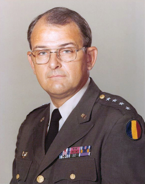 Donn A Starry as TRADOC commander